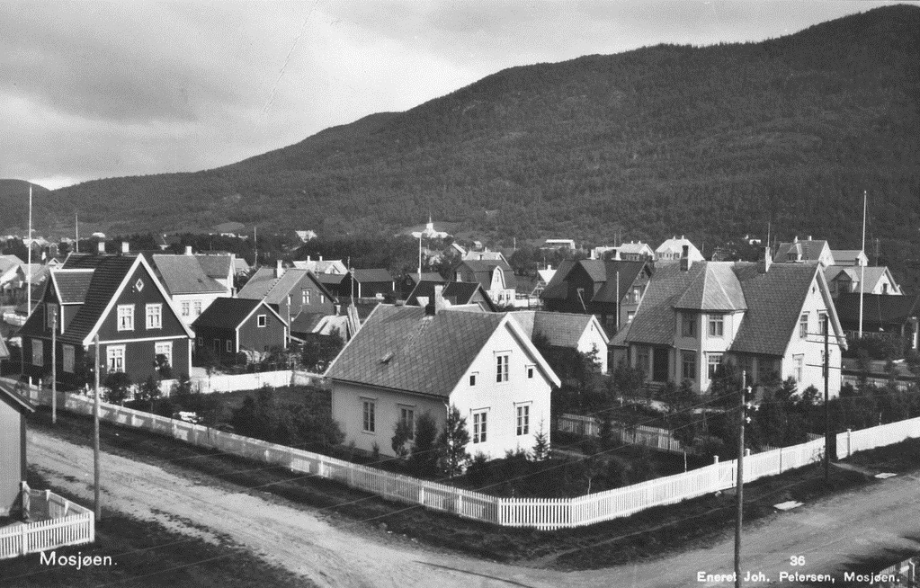 Postal card depicting town villas in Mosjøen, Norway.